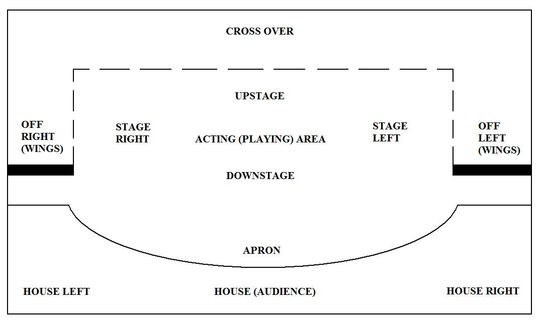 Areas of a standard proscenium stage; plan view